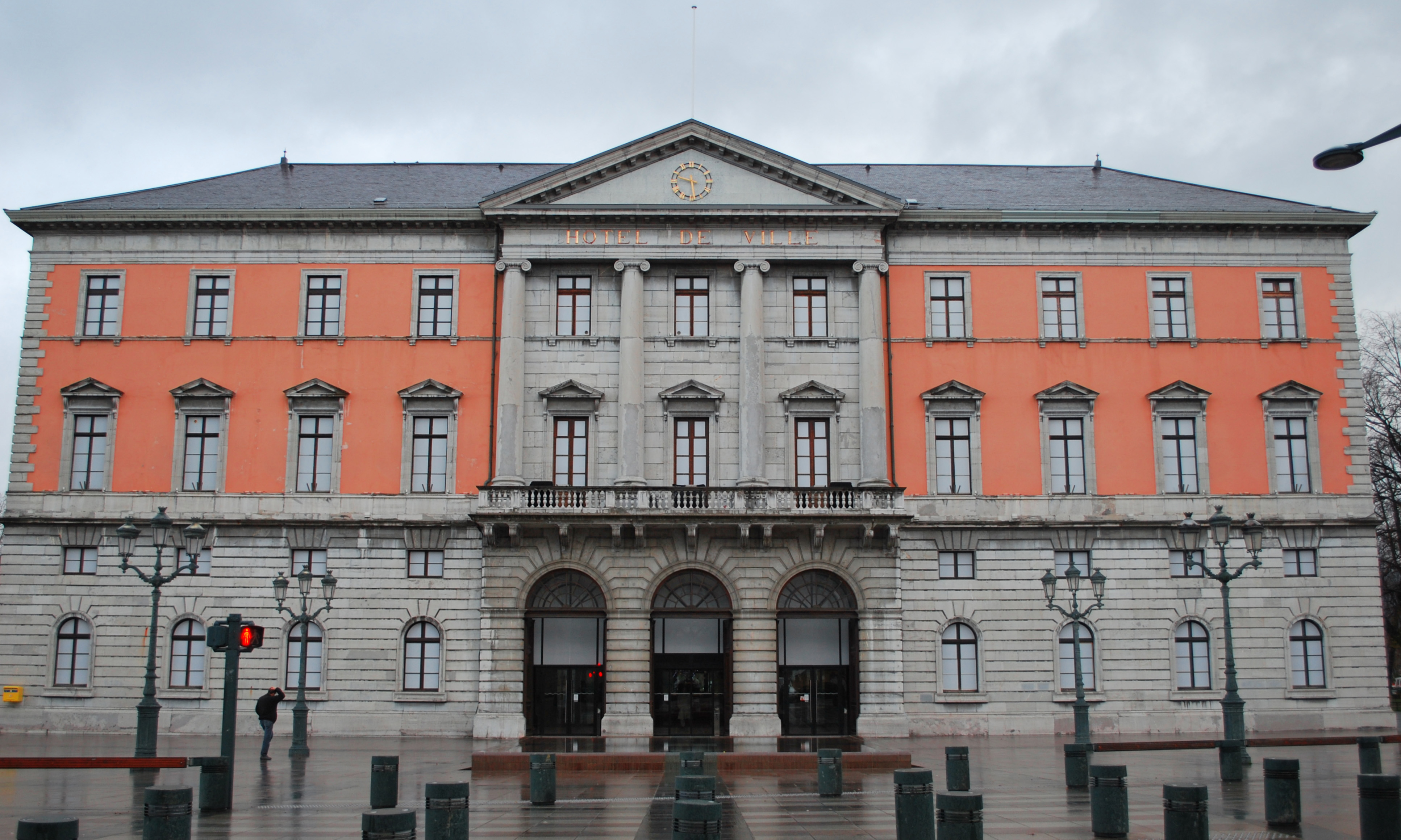 I took this photo with my own camera.